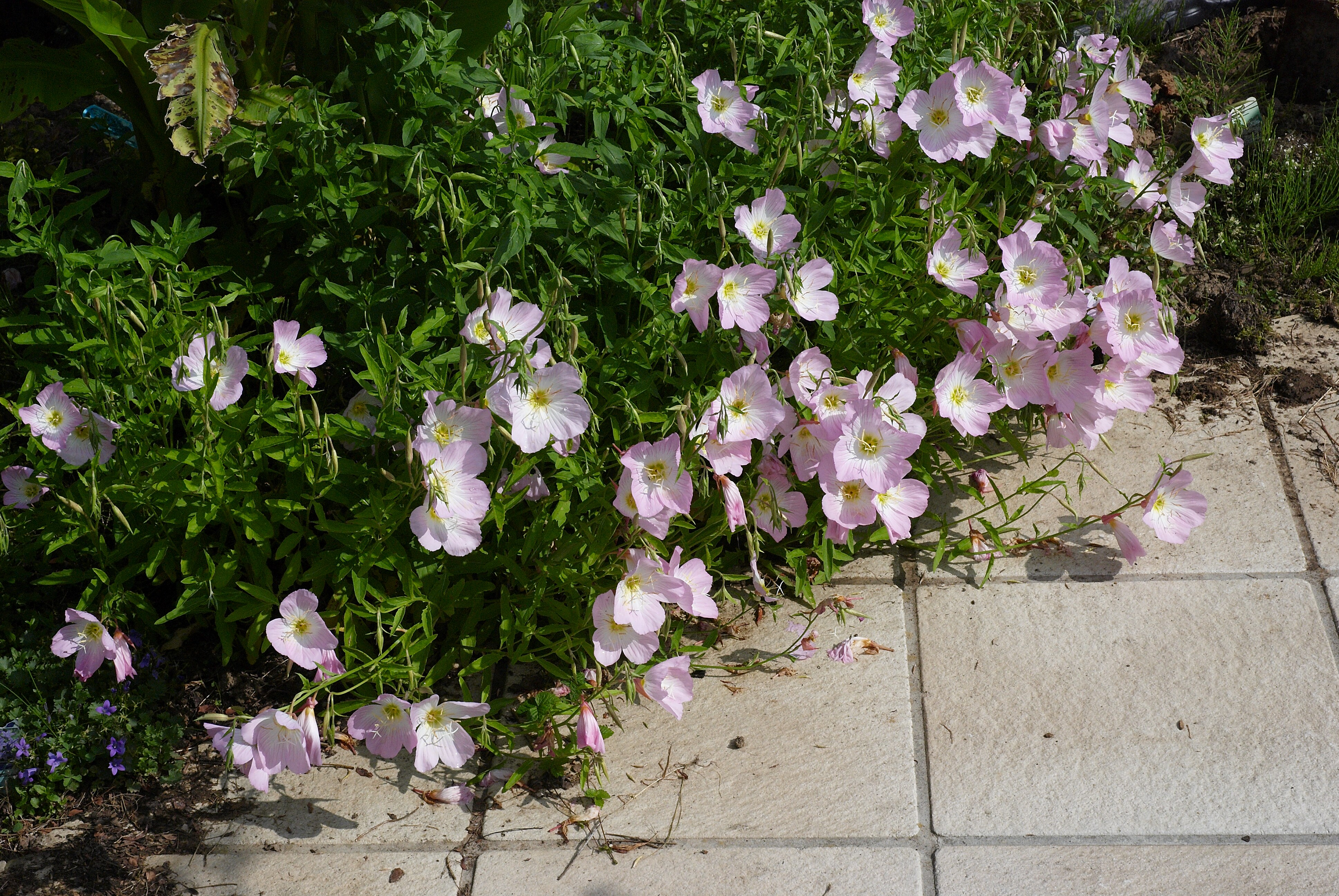 Oenothera speciosa 'Siskiyou' Other photos of the same plant